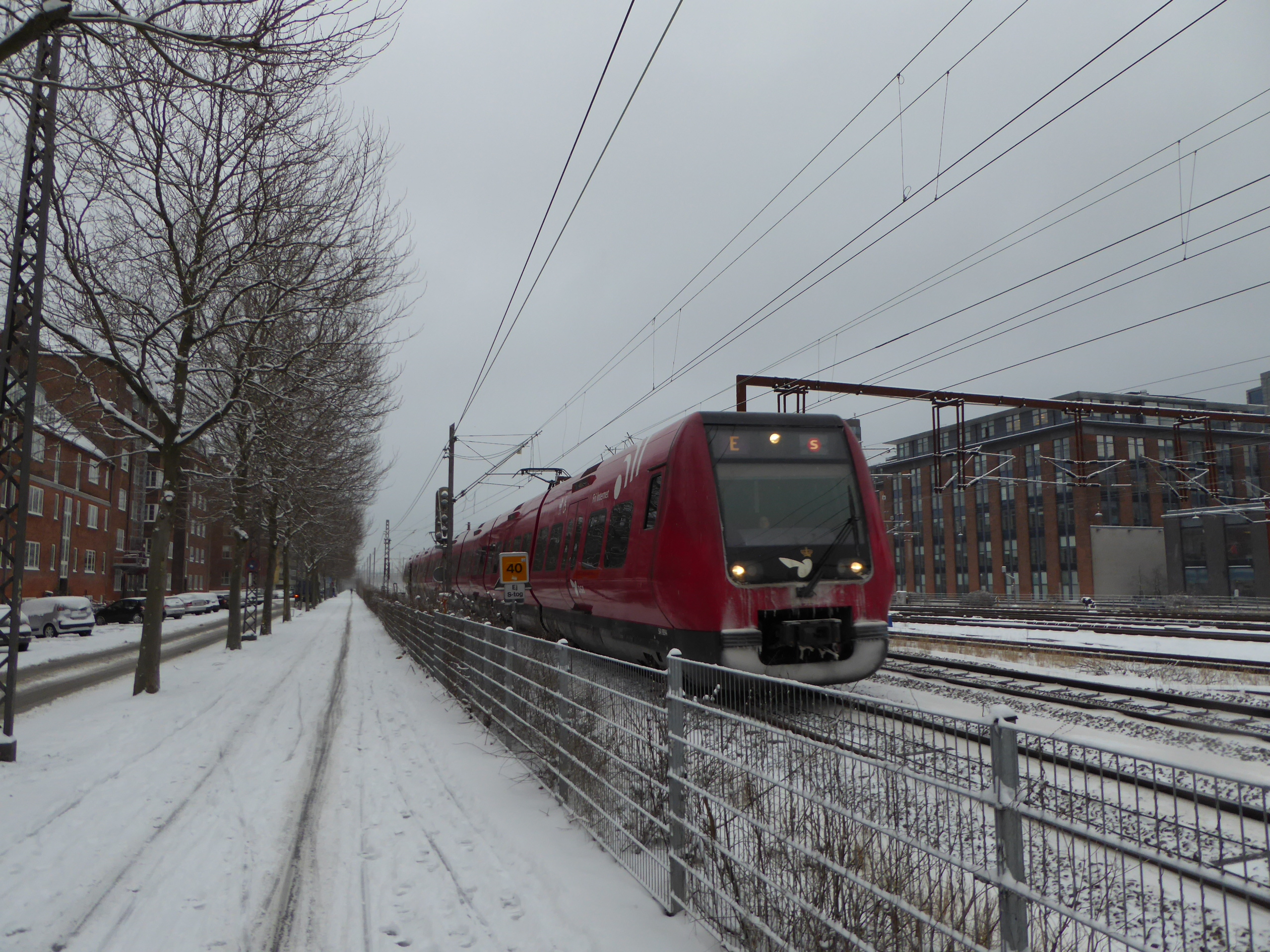 S-train line E for Køge at Østbanegade in Østerbro in Copenhagen with snow.